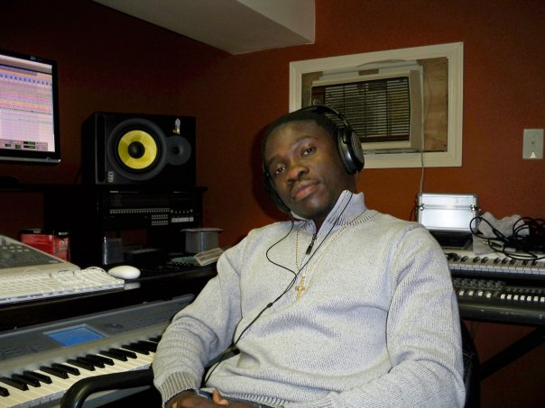 Jay Q in kindom Studios , Chicago, IL